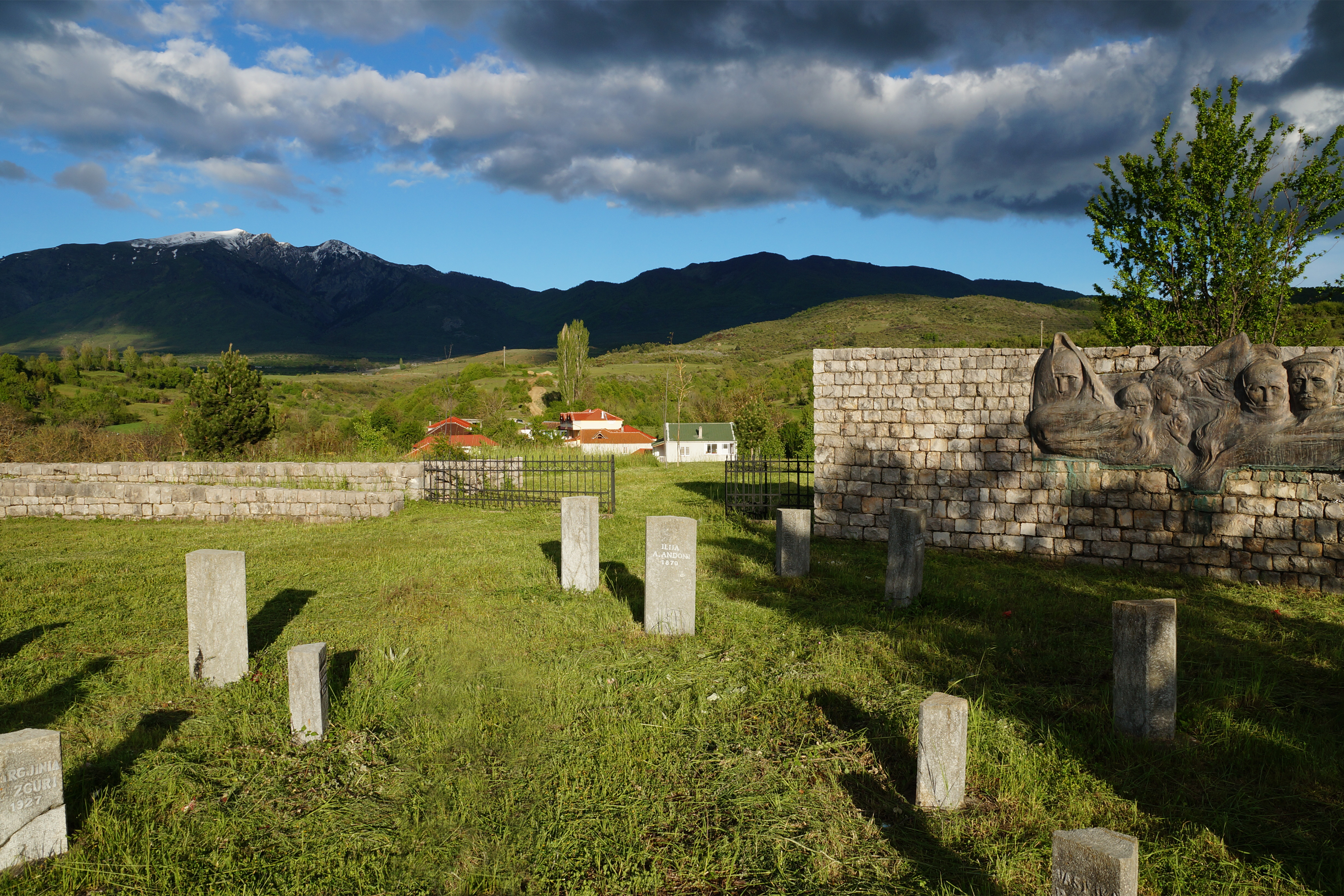 Borova in Southern Albania: memorial commemorating the massacre of German Wehrmacht in 2nd World War